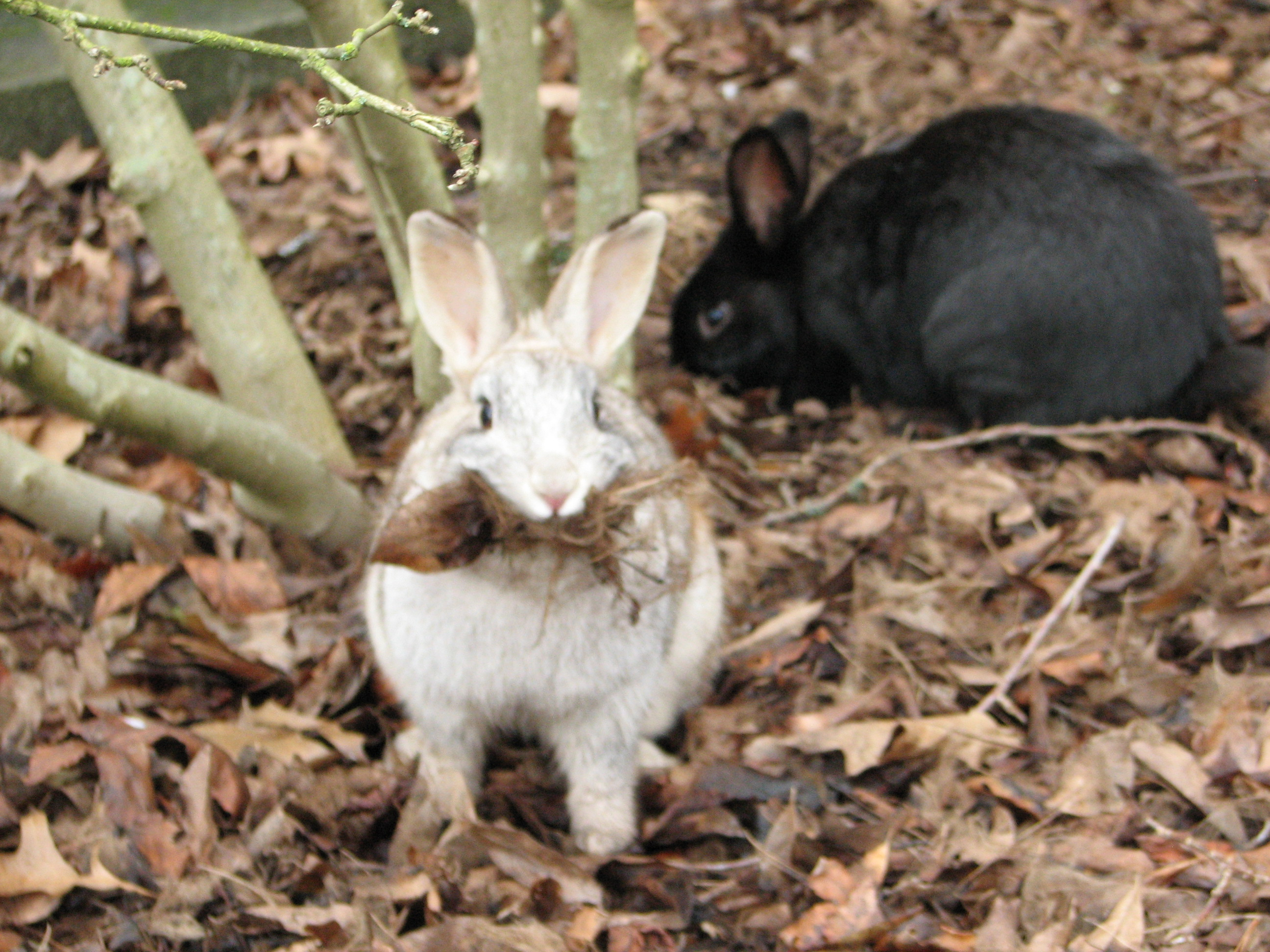 Rabbits on campus at the University of Victoria